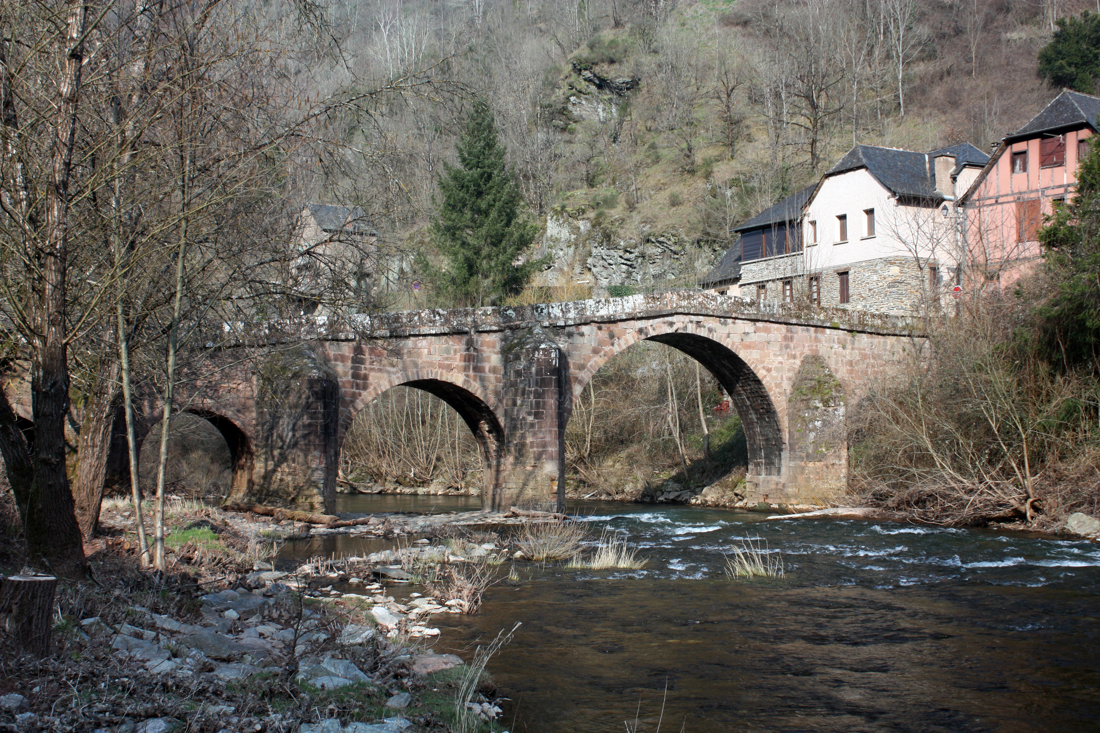 The "Roman bridge" used by pilgrims on the Way of St James through Figeac.